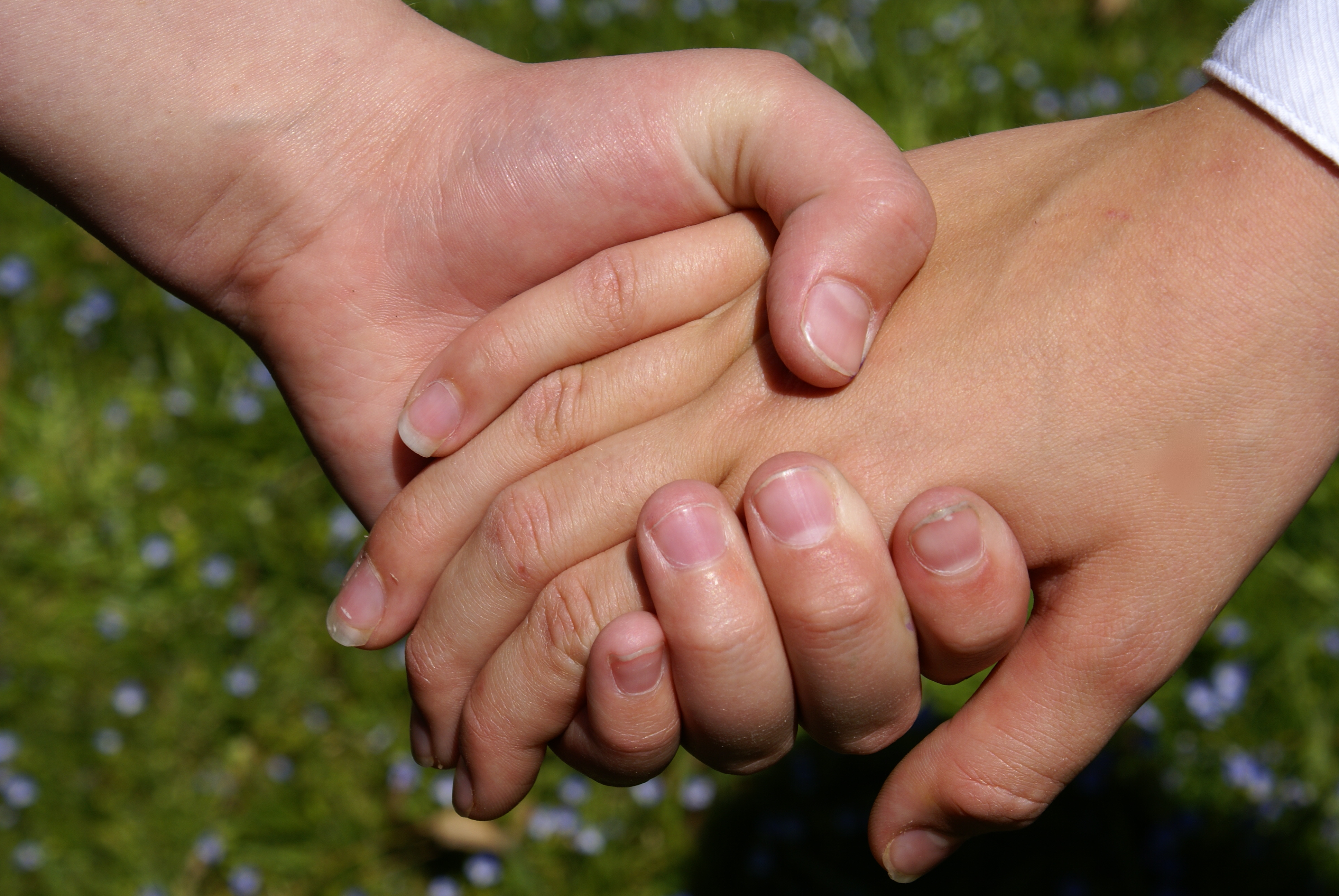 Two children holding hands - age 10, and age 8